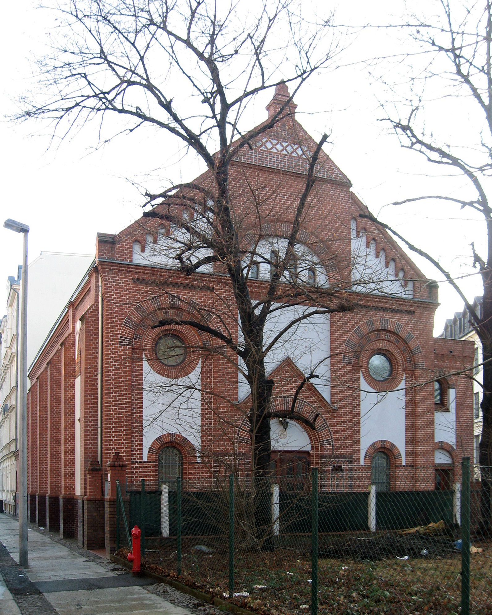 Catholic Apostolic church in Leipzig-Lindenau, Endersstrasse 31